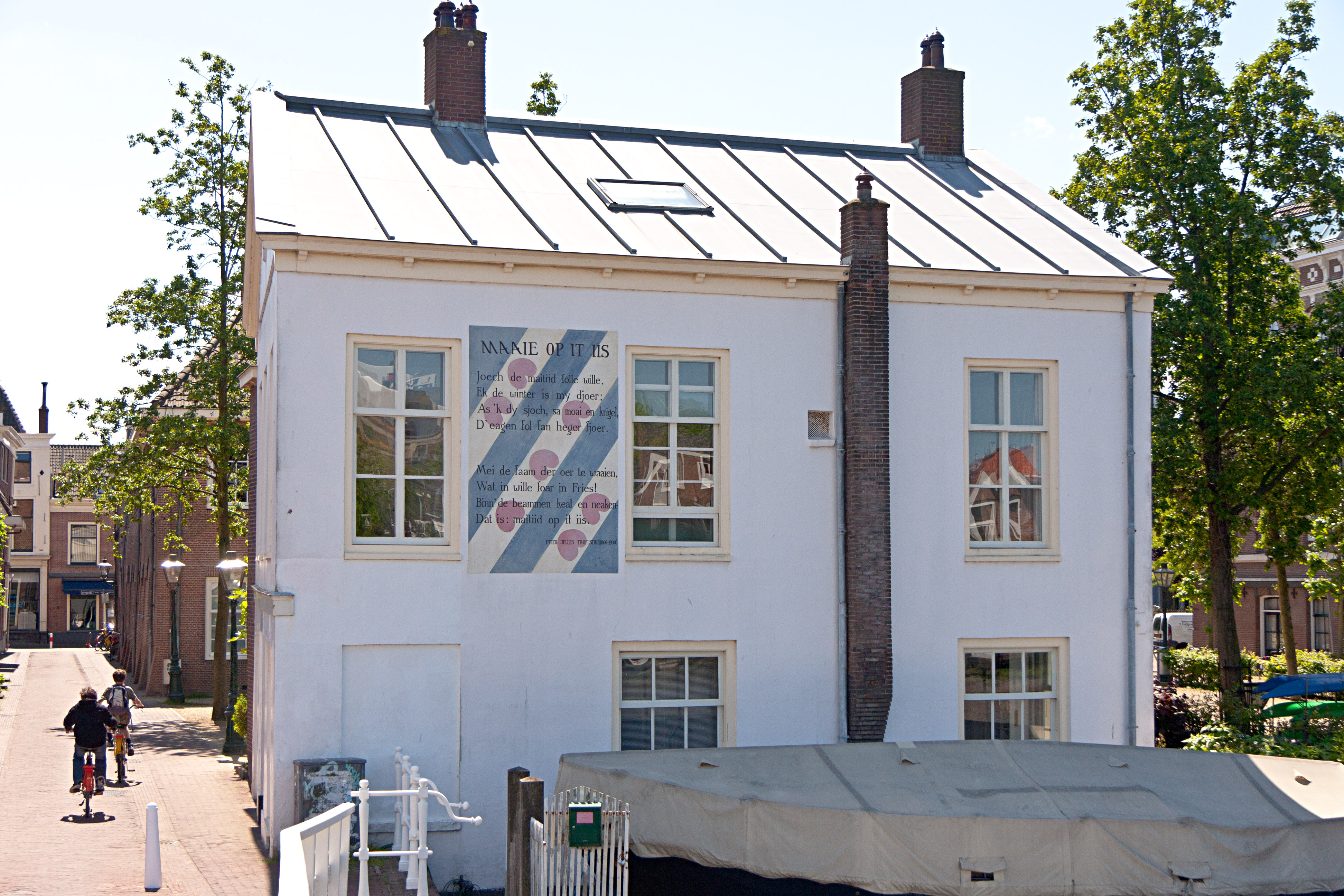 A wall poem in Leiden, the Netherlands, in Friesian, by Pieter Jelles Troelstra